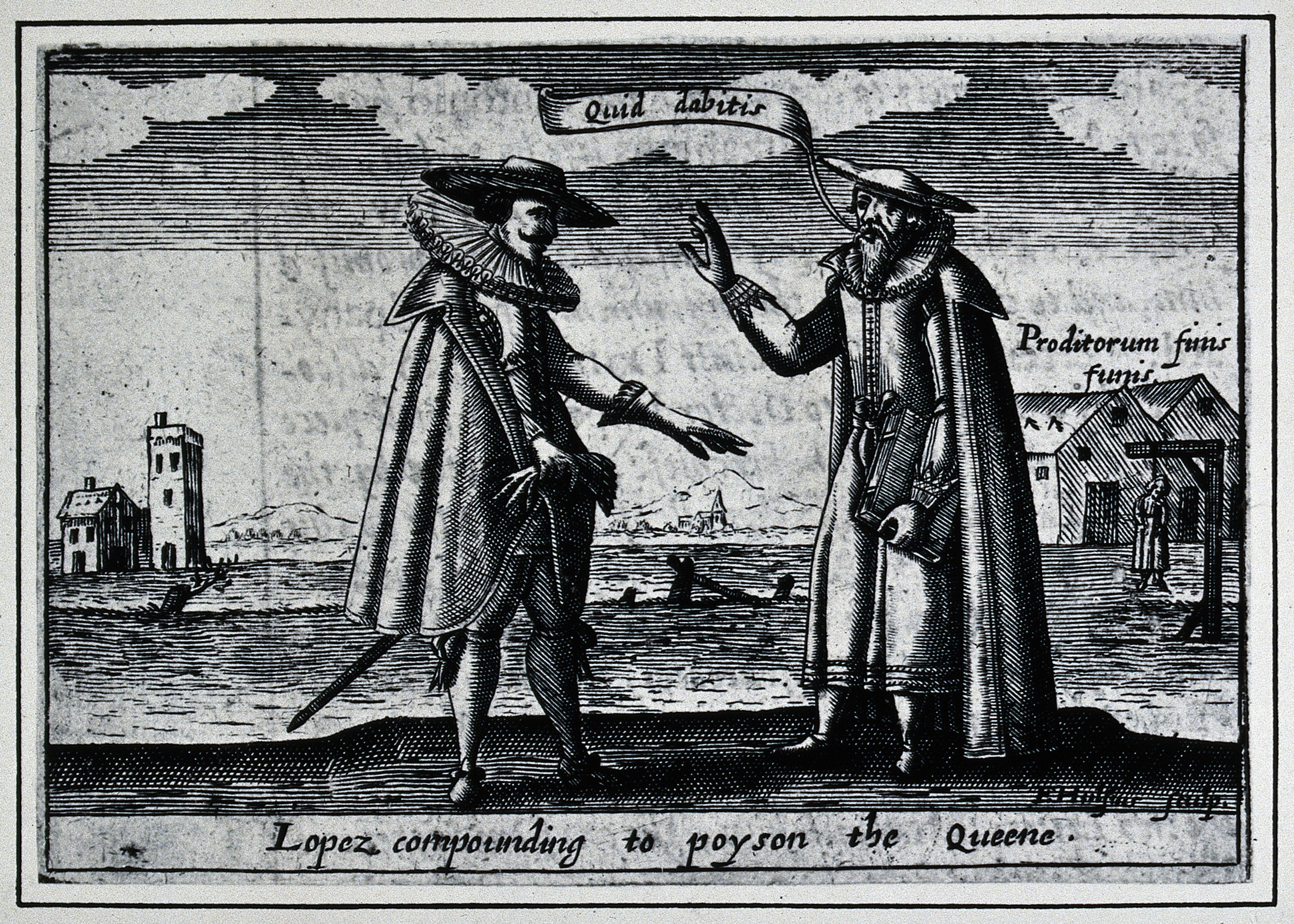 Roderigo Lopez. Photograph after an engraving by E. Hulsius. Iconographic Collections Keywords: portrait photographs